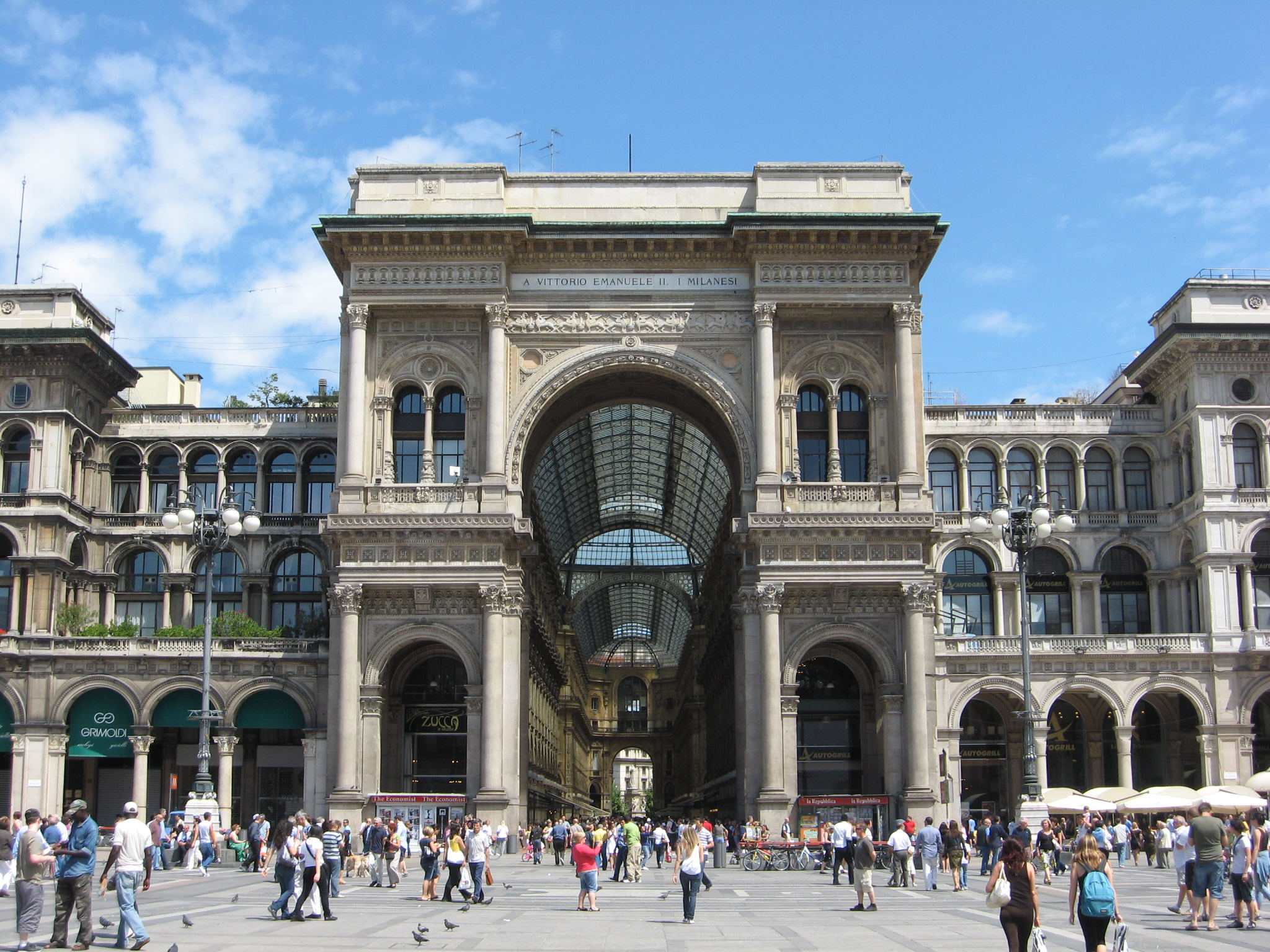 Galleria Vittorio Emanueli II in Milan